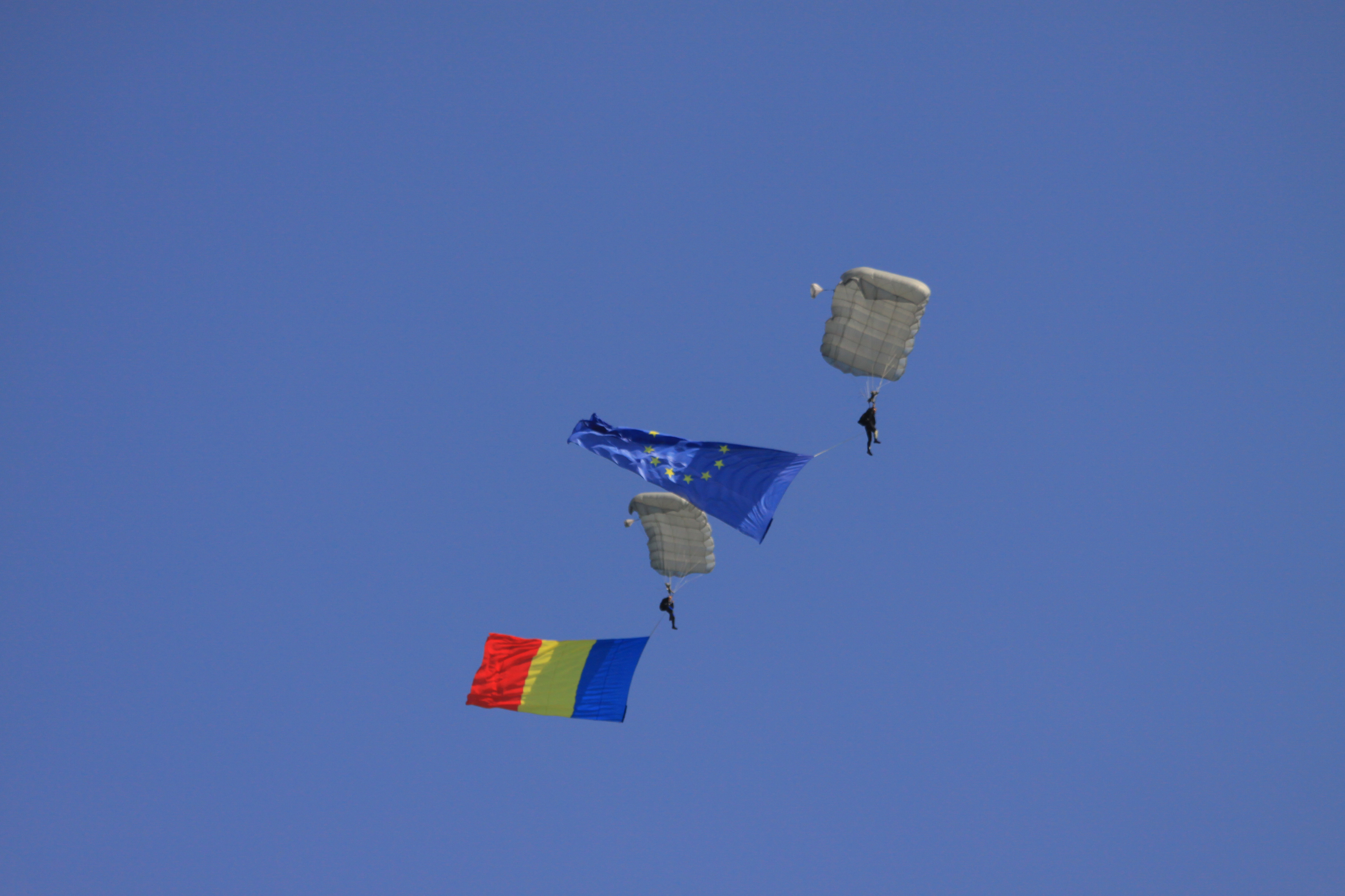 Romanian Navy official party 15-08-2018 Constanta: Navy seals